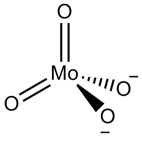 structure of molybdate ion made with ChemDraw